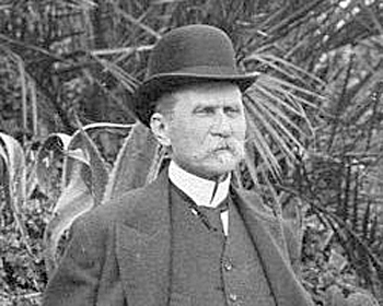 Kazimierz Chłędowski